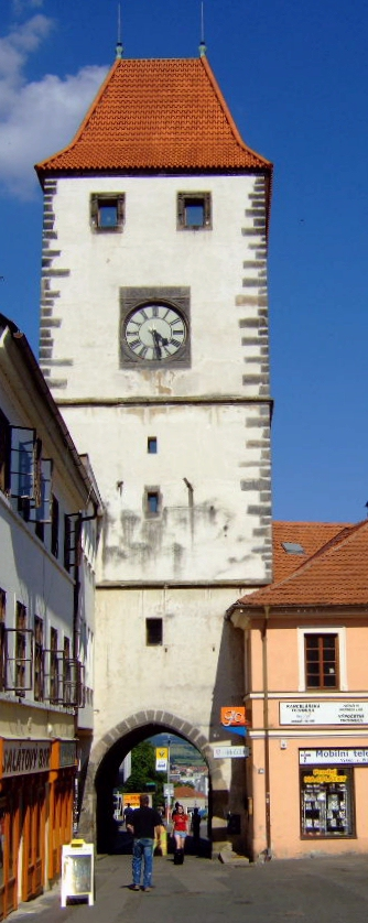 Prague Gate in Mělník